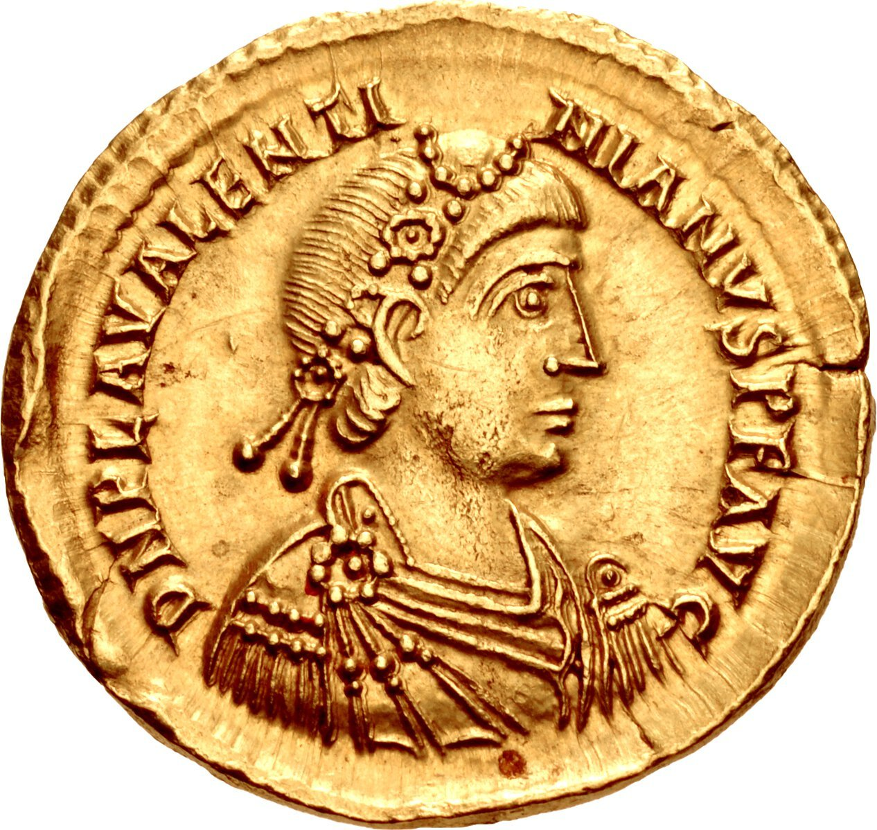 Valentinian III. AD 425-455. AV Solidus (21mm, 4.49 g, 6h). Ravenna mint. Struck circa AD 430-445. Rosette-diademed, draped, and cuirassed large bust right / Valentinian standing facing, right foot on head of human-headed coiled serpent, holding long cross and Victory on globe; R|V//COMOB. RIC X 2019; Ranieri 96; Depeyrot 17/1. EF.